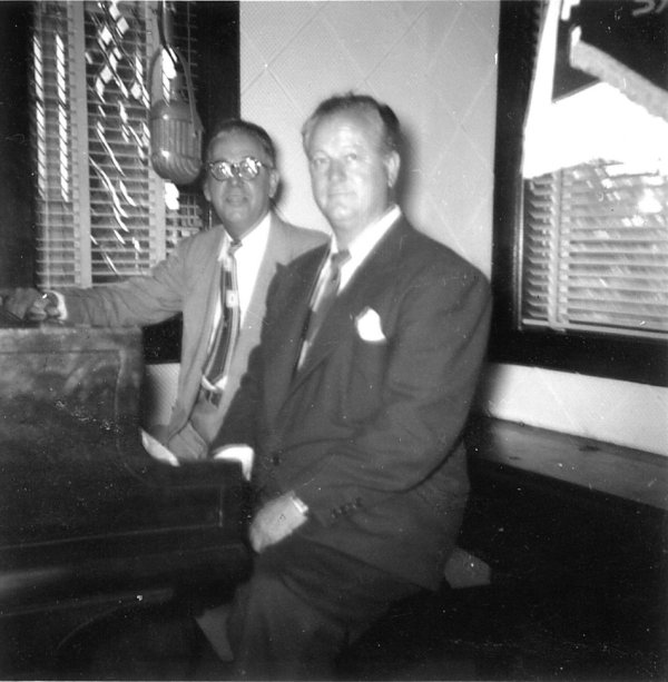 Gene Austin as guest on Art Gillham's radio program from Atlanta's WQXI.